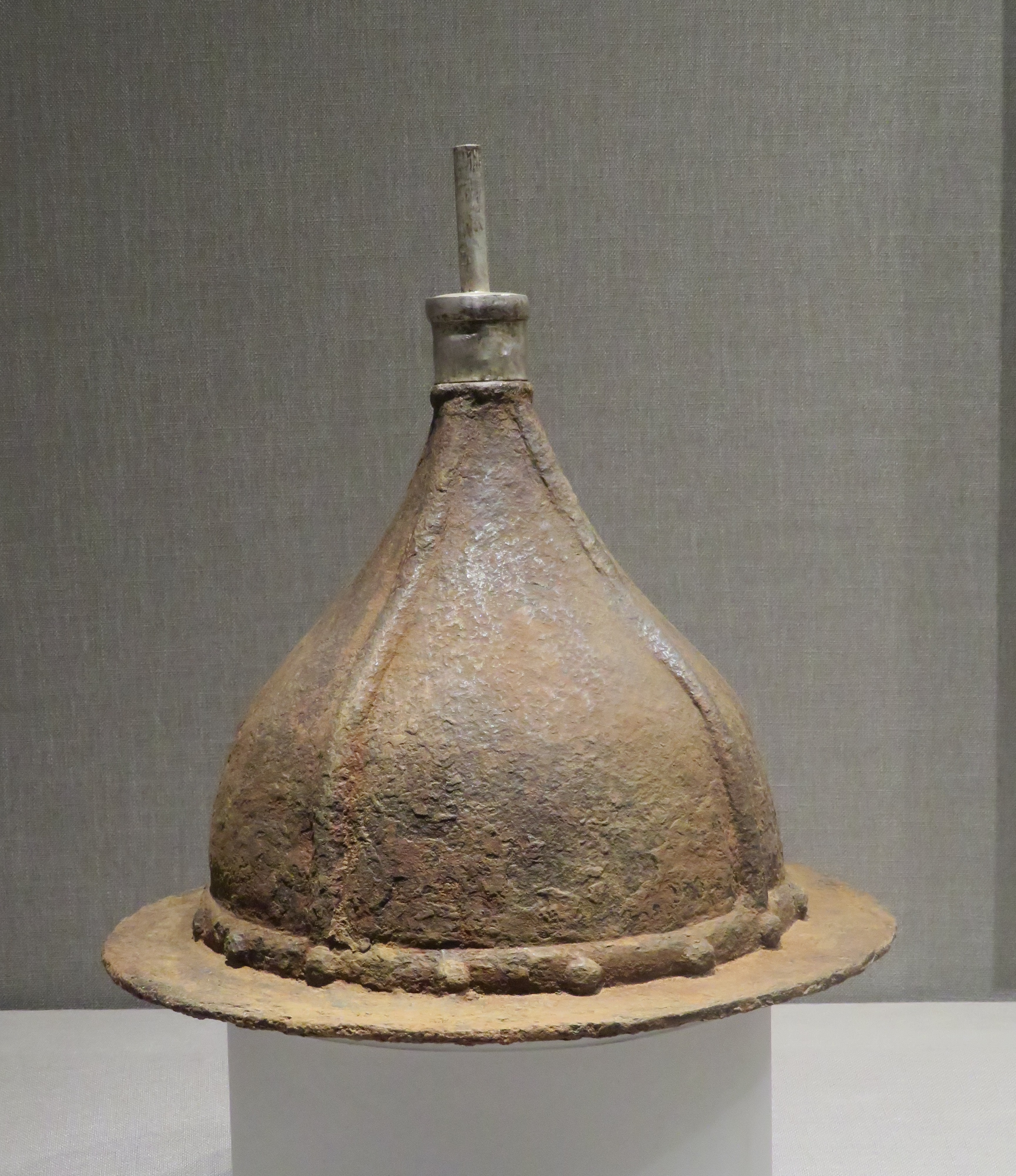 Helmet. Yuan dynasty. Collected from Hohhot, Inner Mongolia.